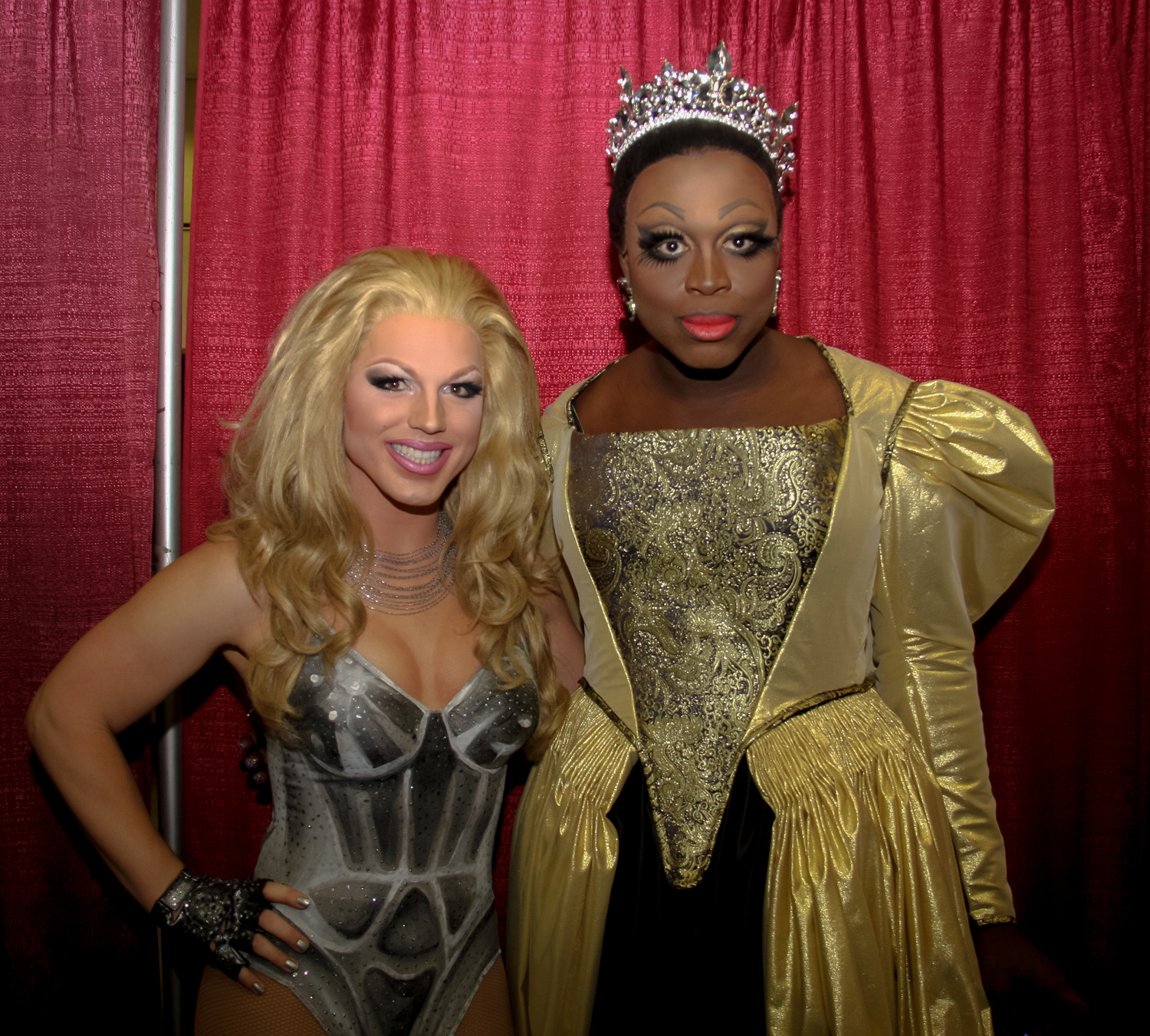 Derrick Barry and Bob the Drag Queen at RuPauls Dragcon 2017